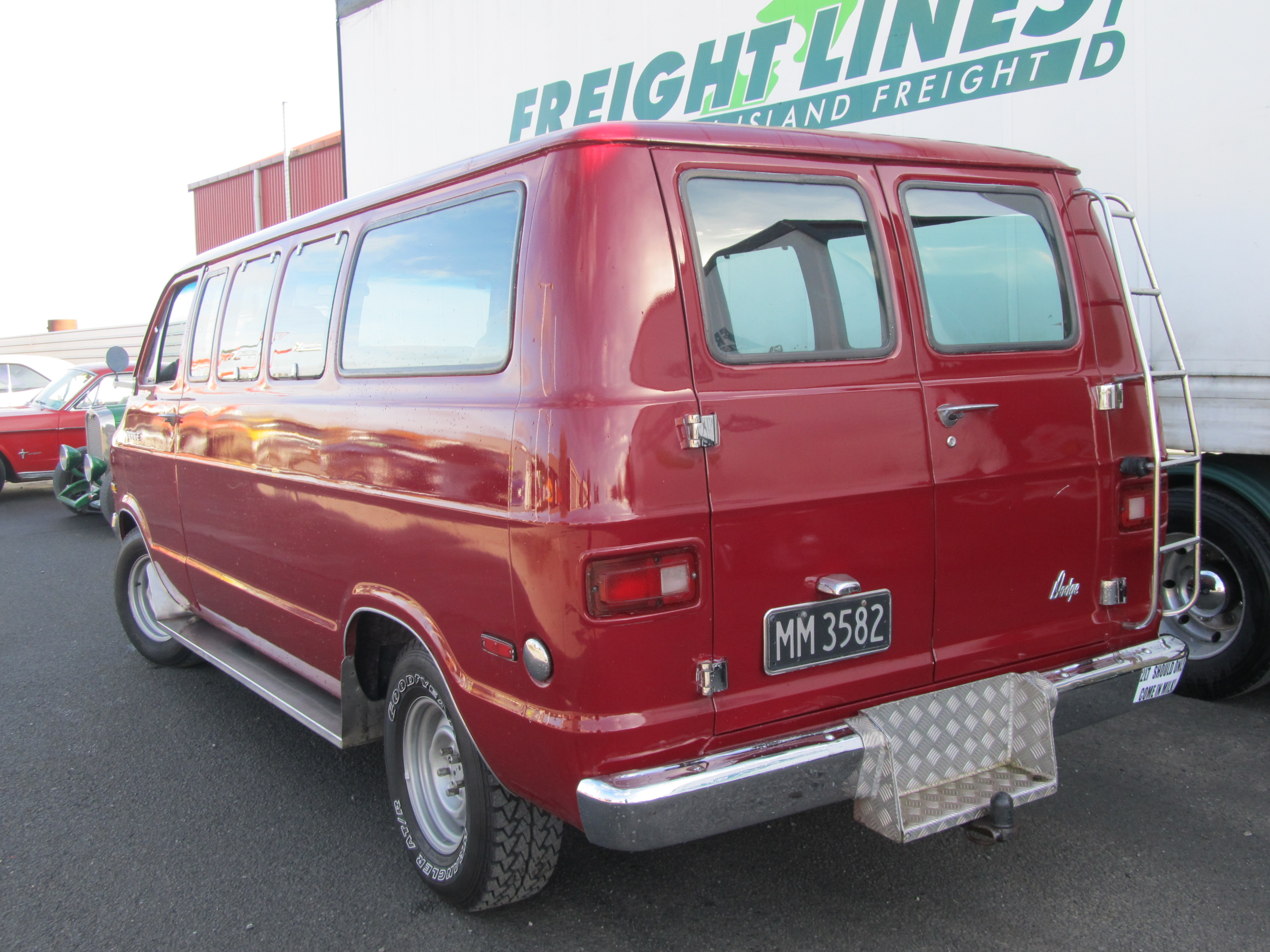 MM3582 The condition of this really was amazing! Now, I need to find an Econoline of the same age... Can these seat about 10 people in minivan form? This one's commercial so it only has the two front seats.